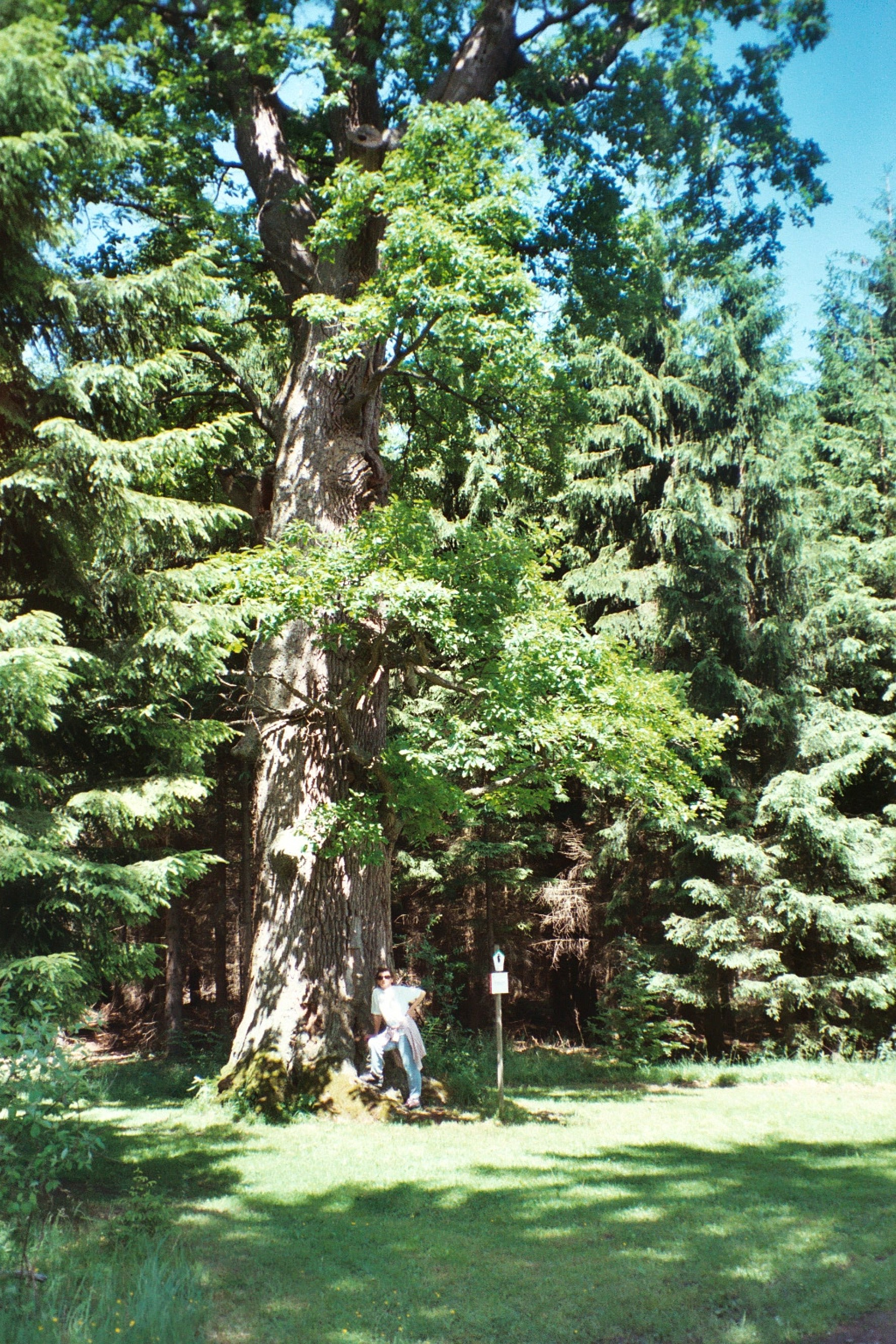 Allrode (Thale), protected oak